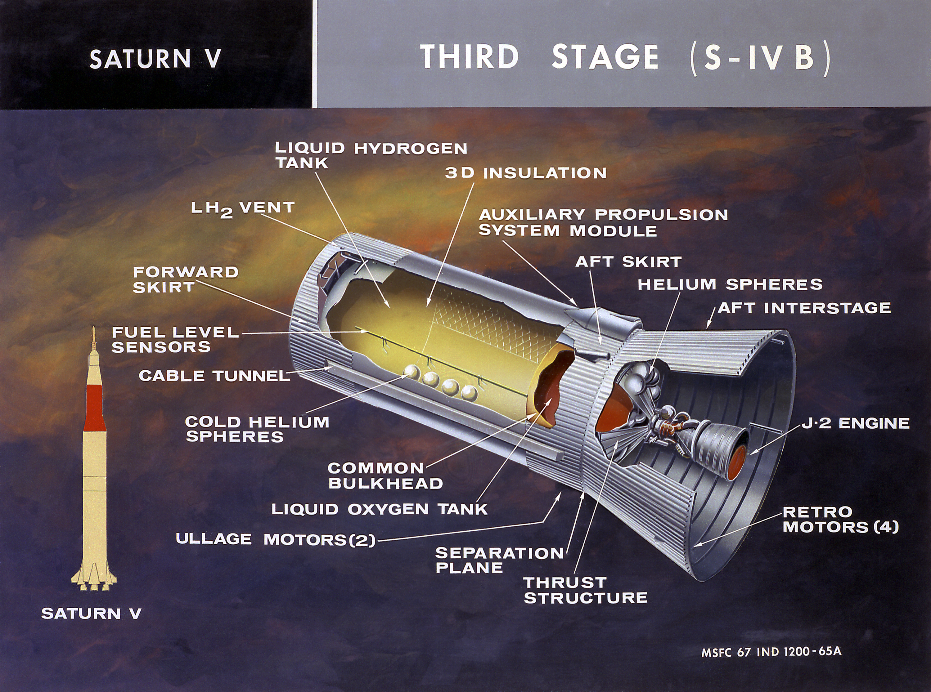 This cutaway illustration shows the Saturn V S-IVB (third) stage with the callouts of its major components. When the S-II (second) stage of the powerful Saturn V rocket burnt out and was separated the remaining units approached orbit around the Earth. Injection into the desired orbit was attained as the S-IVB (third stage) was ignited and burnt. The S-IVB stage was powered by a single 200,000-pound thrust J-2 engine and had a re-start capability built in for its J-2 engine. The S-IVB restarted to speed the Apollo spacecraft to escape velocity injecting it and the astronauts into a moon trajectory.